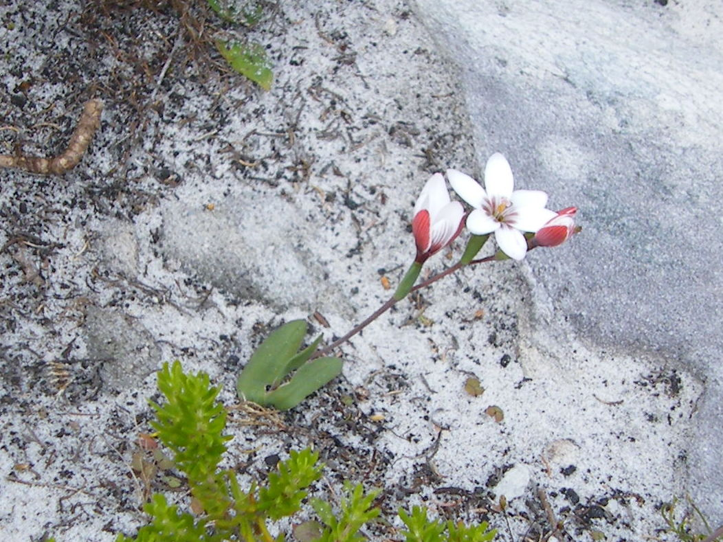 Cape Point Cape Town